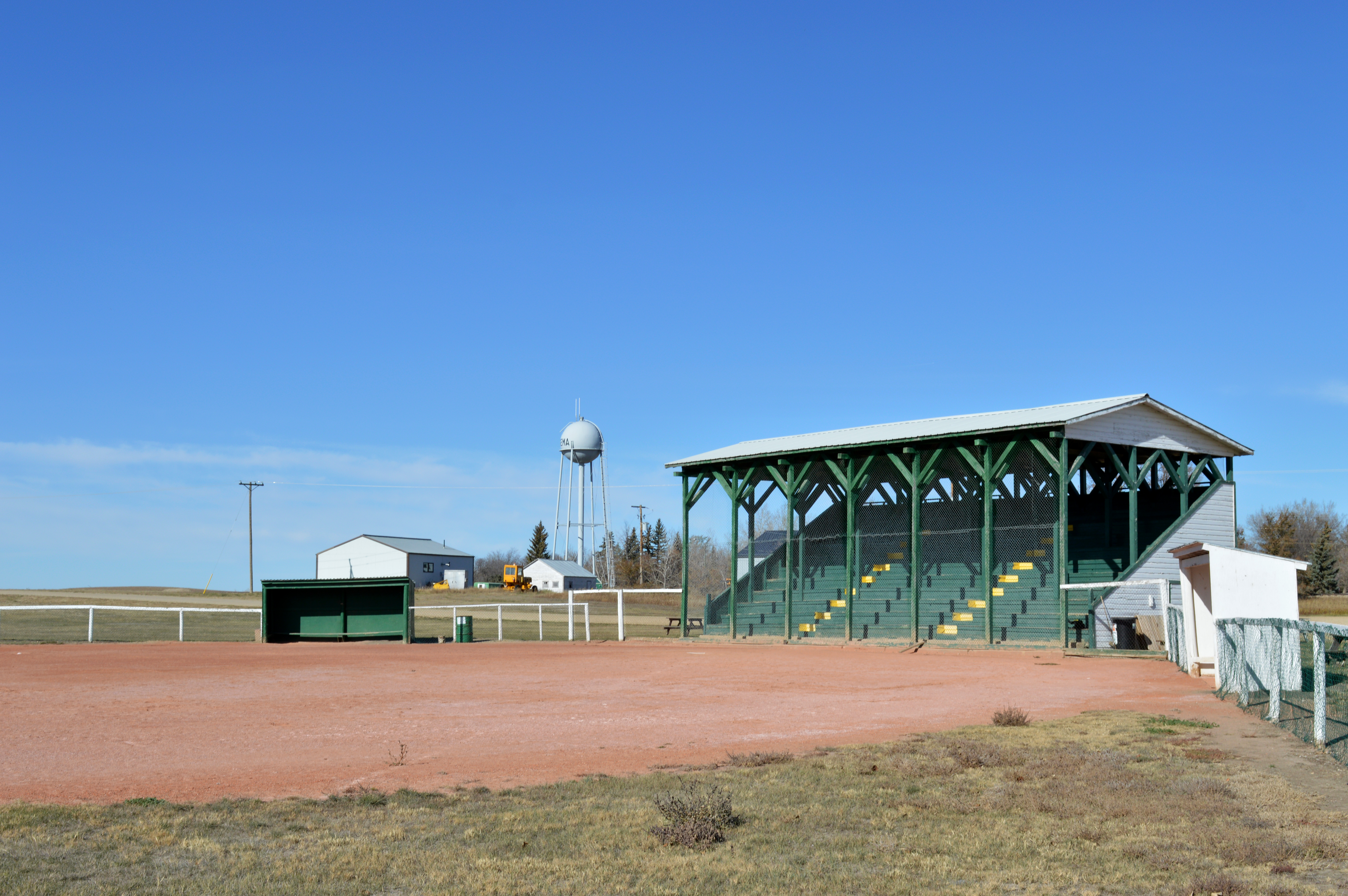 Ogema Grandstand, baseball field and water tower